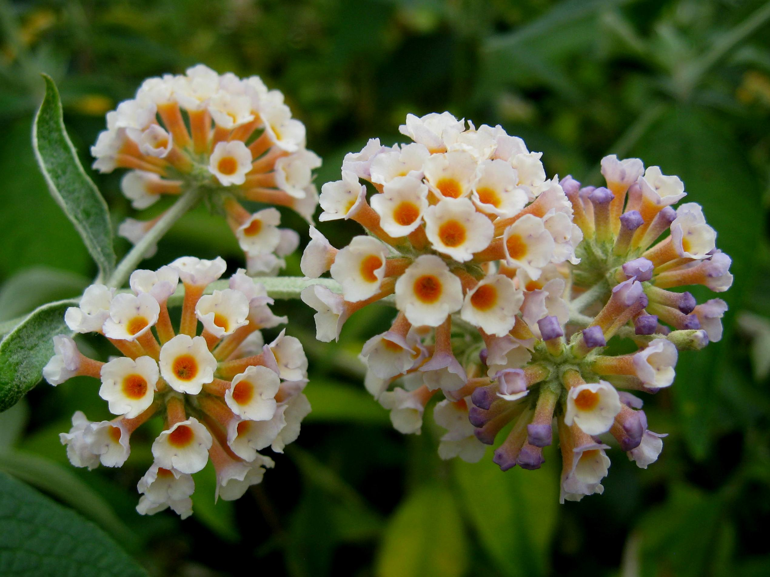 Photo taken at Longstock Park, UK, August 2012.